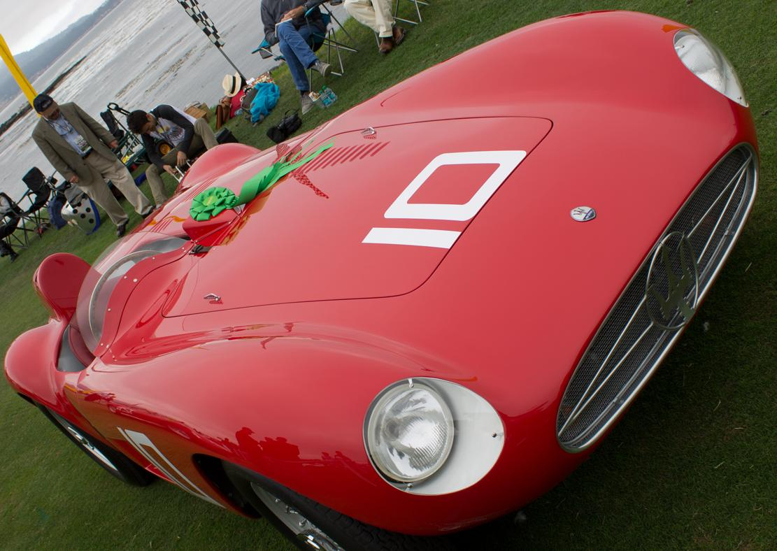 This Maserati 300S (chassis 3053) was the third Maserati ordered by Briggs Cunningham for the use of his friend and team driver Bill Spear and Sherwood Johnston in the 1955 Sebring 12 Hours race. The pair won third overall in the brand new Maserati behind second-placed Phil Hill/Carroll Shelby in their Ferrari 750 Monza and the winning Mike Hawthorn/Phil Walters in their Jaguar D-type. Following this very successful racing debut, big, burly Bill Spear then campaigned this car in a selective program of Sports Car Club of America events. After a few more owners in the United States, the well-preserved Maserati was acquired by leading German Maseratisto Dr. Thomas Bscher in 1986. Its current owner recently acquired this historic Maserati. This is the first time it has been back in the United States for nearly 30 years.